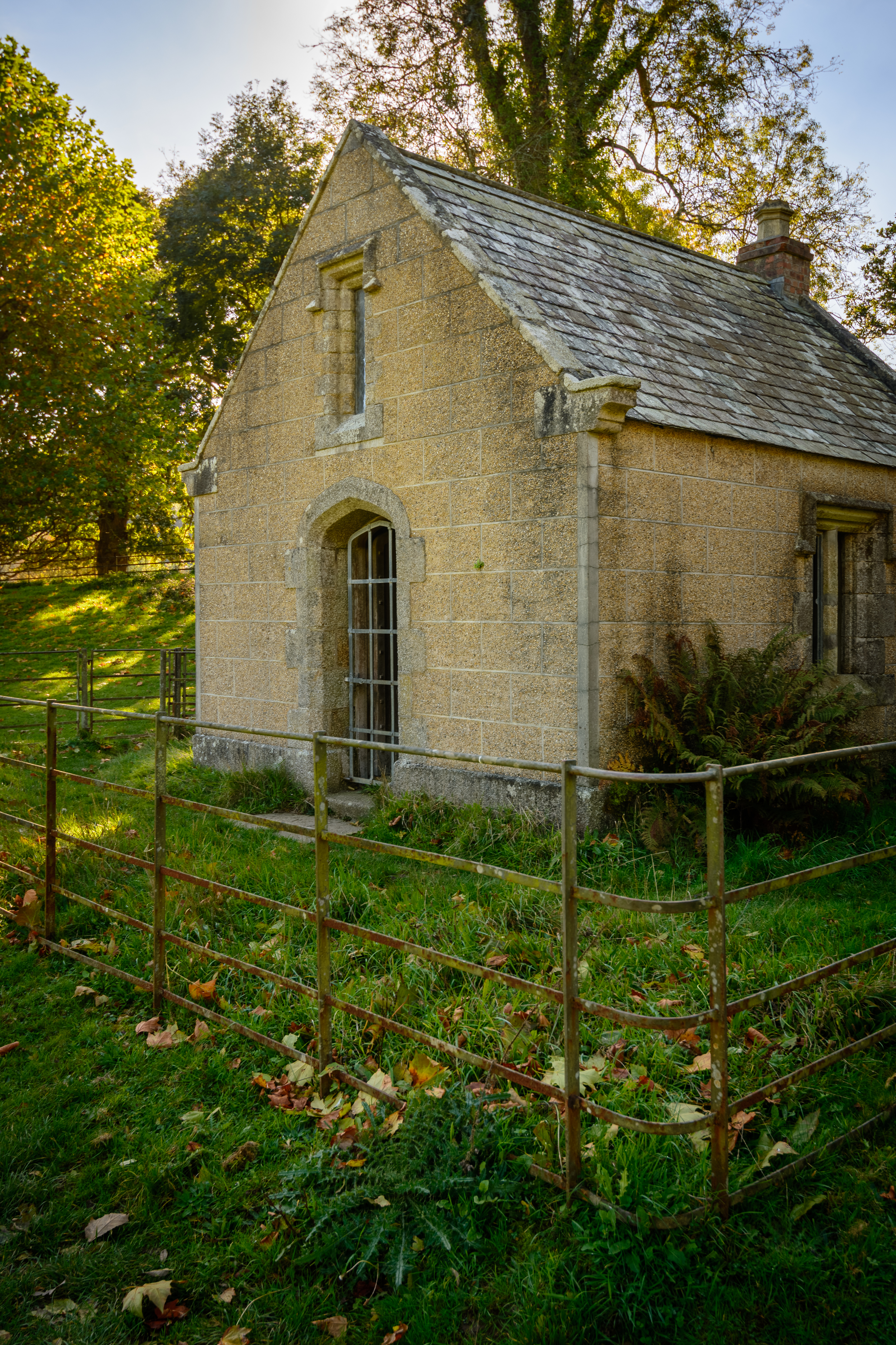 Bath House And Well Head East Of Penrose Manor House Wikidata has entry Q26490880 with data related to this item.